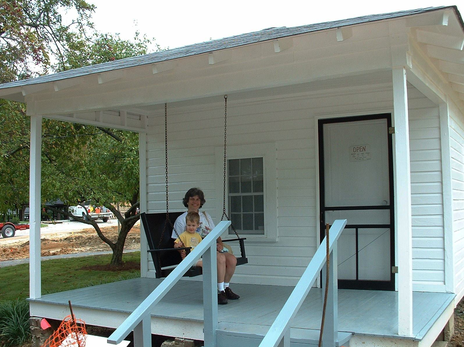 Birthplace of the musician Elvis Presley in Tupelo, Mississippi